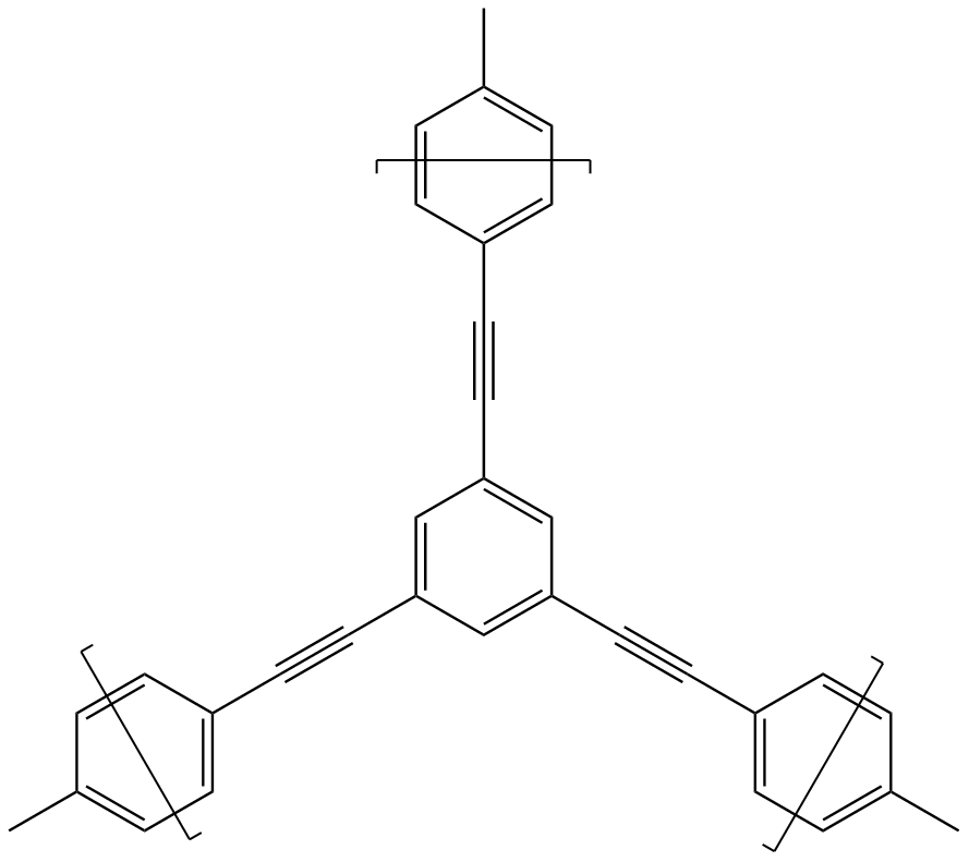 CMP monomer showing rigid alkynes and aromatic rings